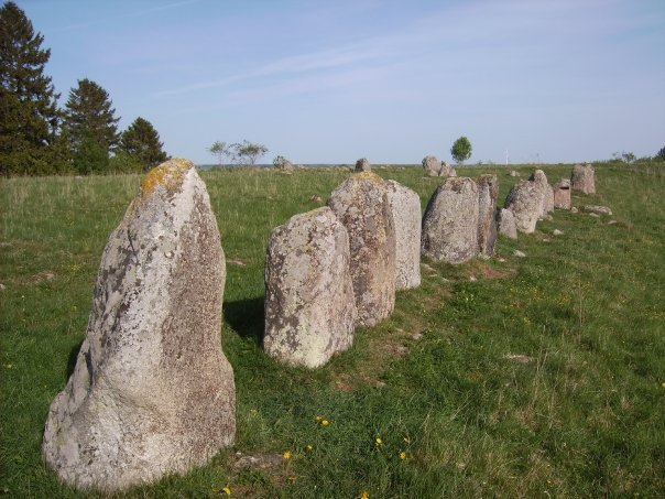 Lunds backe, A prehistoric burial area from the Iron Age, outside the town Skänninge in the parish Vallerstad, Östergötland, Sweden.